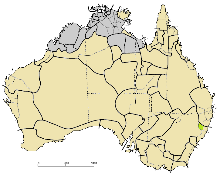 Anaiwan (green) among other Pama–Nyungan languages (tan). Bowern (2011) classifies Nganyaywana as a separate Anaiwan branch of the Pama–Nyungan languages.